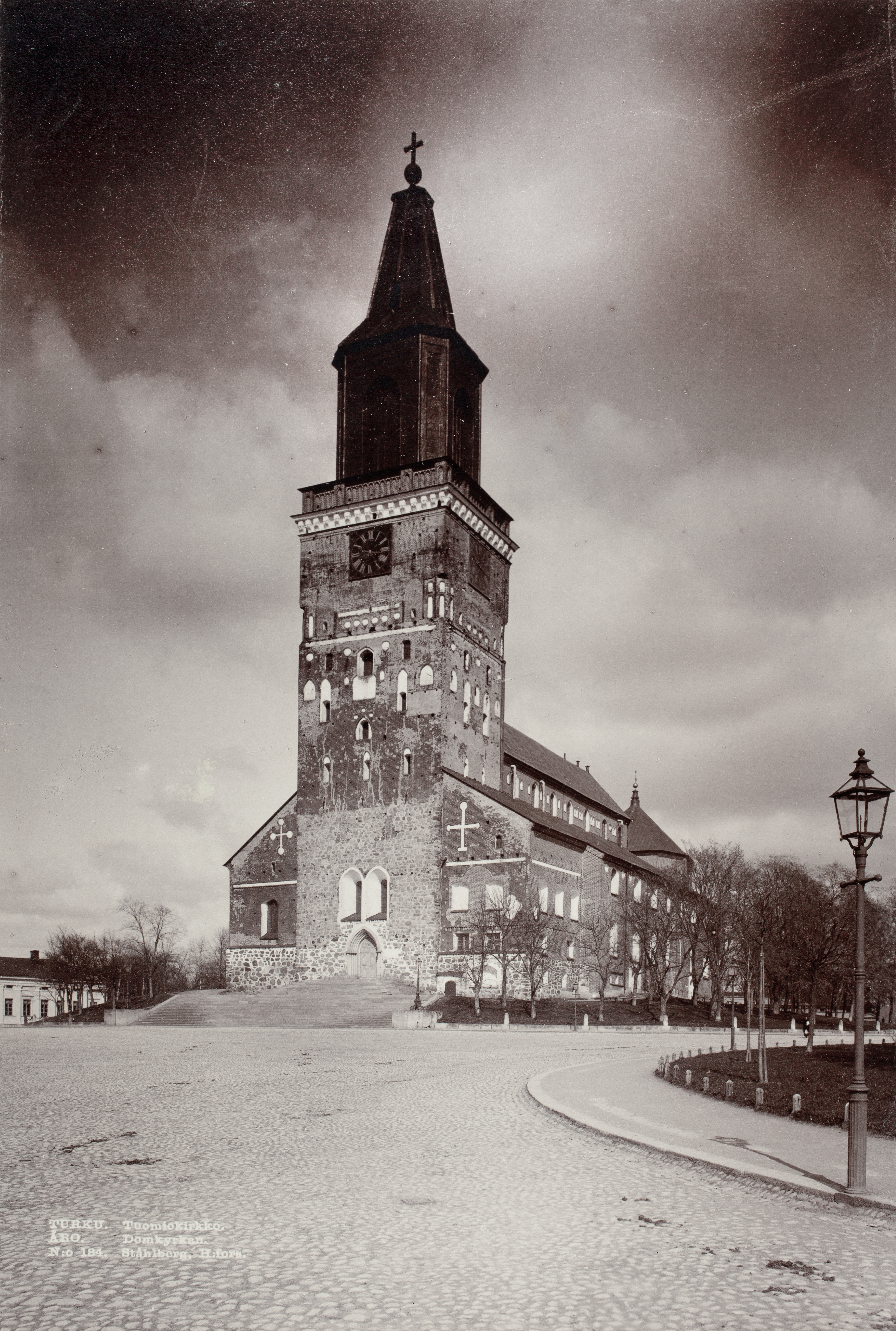 Åbo domkyrka (14,8x22 cm) på kartong Foto: Atelier K. E. Ståhlberg Helsingfors, Finland Svenska litteratursällskapet i Finland